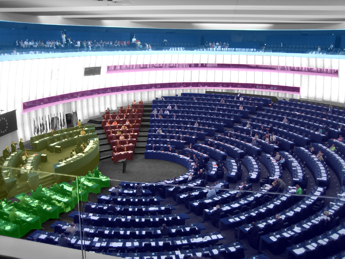 Based on File:EP Strasbourg hemicycle l-gal.jpg, with highlighted seating areas for image map.